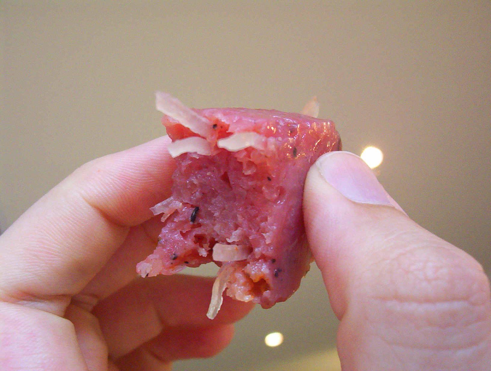 Nem Chua is a Vietnamese cured pork sausage with pork rind.